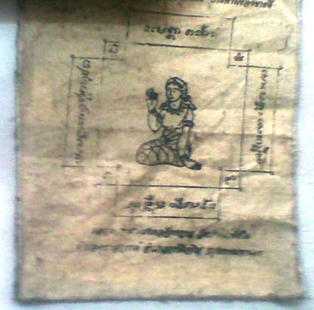 Nang Kwak charm to attract customers at a shop in Bangkok